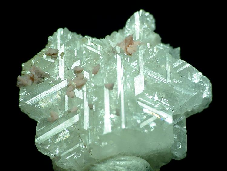 Epididymite Locality: Poudrette quarry (Demix quarry; Uni-Mix quarry; Desourdy quarry), Mont Saint-Hilaire, Rouville RCM, Montérégie, Québec, Canada (Locality at ) A superb and complete reticulated epididymite crystal. 2.5 x 2 x 1 cm